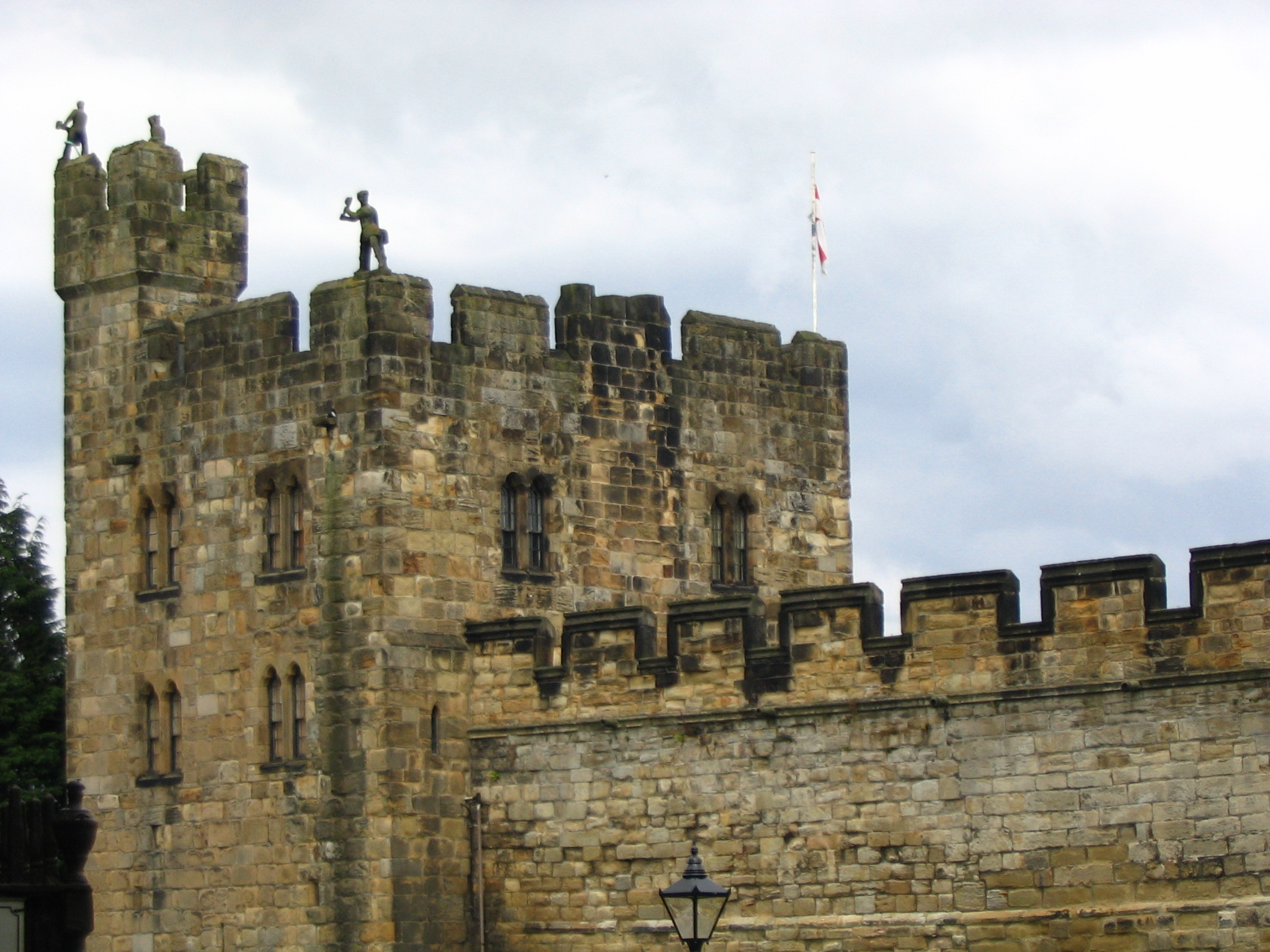 Picture taken by me.